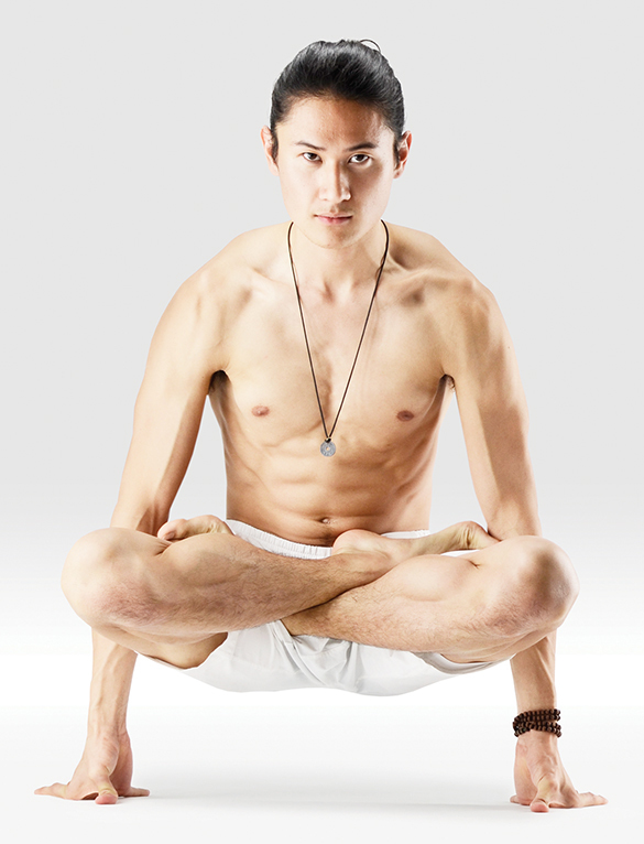 Mr-yoga-scales-pose